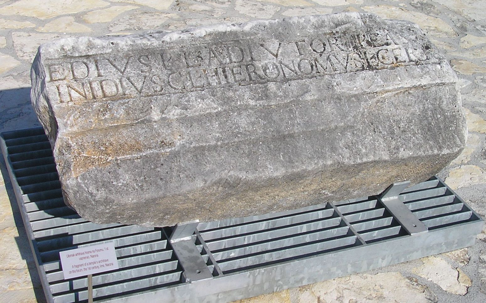 Museum exponat, archeological museum Narona, Vid, Croatia